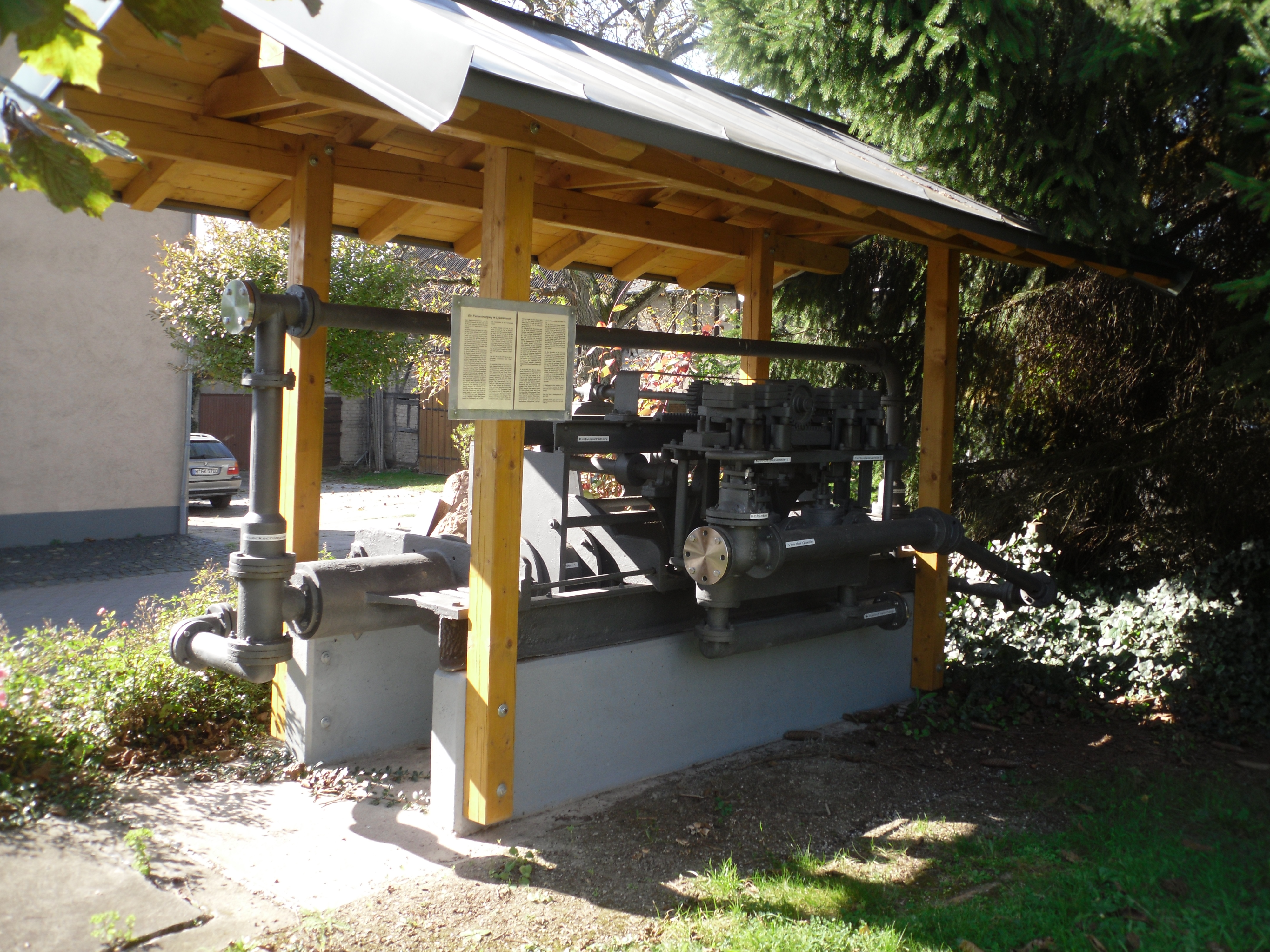 Historical water pump of Lykershausen